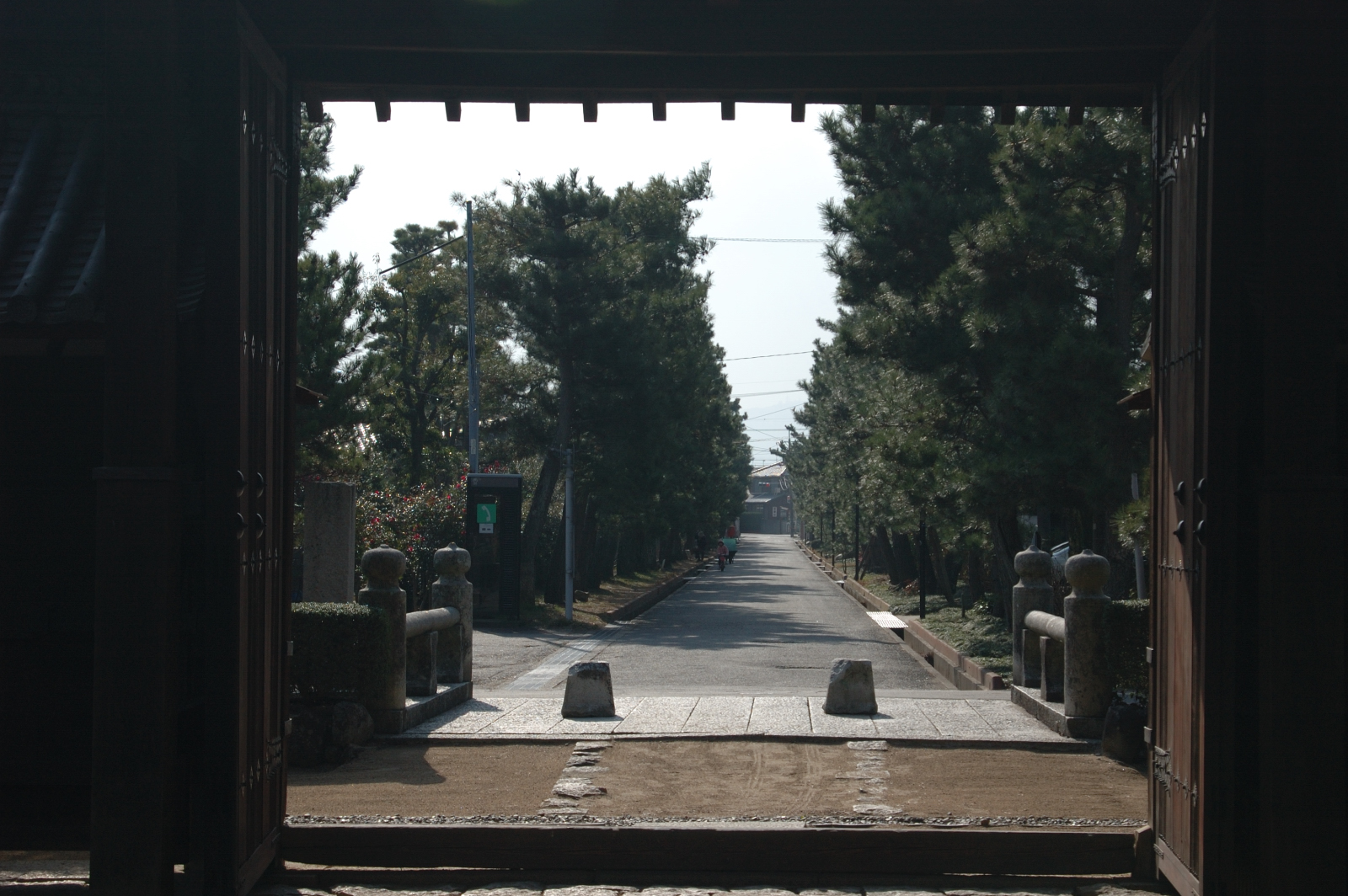 an approach to the temple